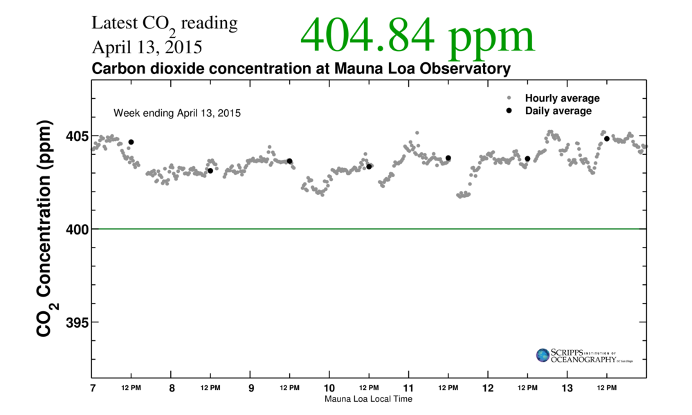 Keeling Curve, April 13, 2015, Scripps Institution of Oceanography, UC San Diego